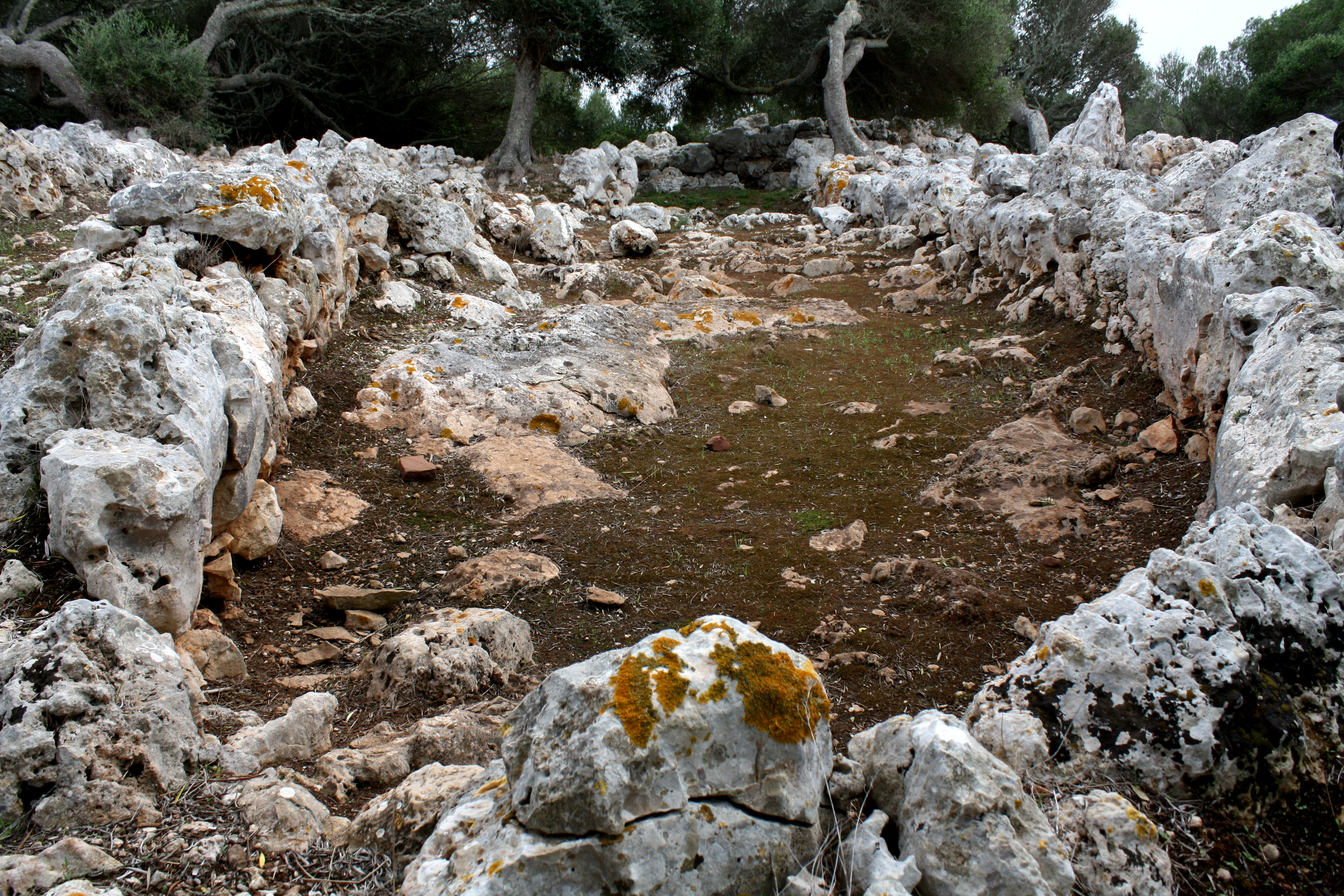 Naviform house No. 4 in prehistoric settlement Son Mercer de Baix, Ferreries, Minorca.